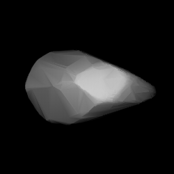 3D convex shape model of 1012 Sarema, computed using light curve inversion techniques. J. Hanuš, J. Ďurech, M. Brož, B. D. Warner (June 2011). "A study of asteroid pole-latitude distribution based on an extended set of shape models derived by the lightcurve inversion method". Astronomy and Astrophysics 530: A134. ISSN 0004-6361. arXiv